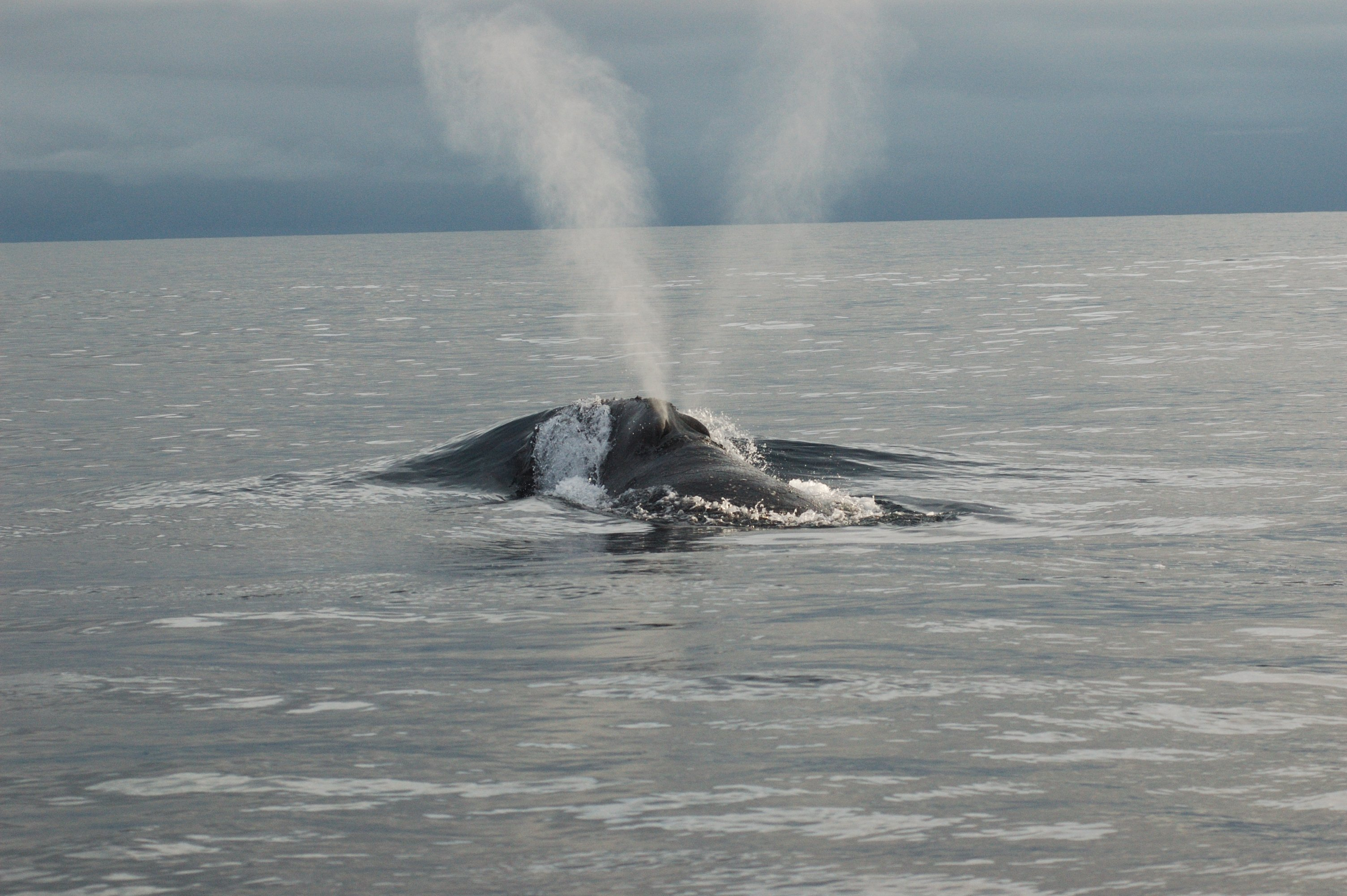 Right whale blowing with classic v-pattern which helps distinguish this species. 2007 circa.